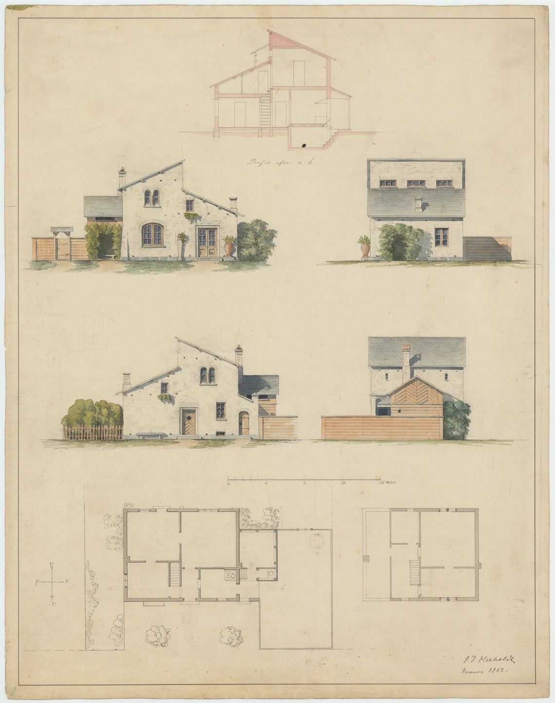 Johan Daniel Herholdt - Axel Kittendorff House , Bianco Lunos Sideallé, Frederiksberg)